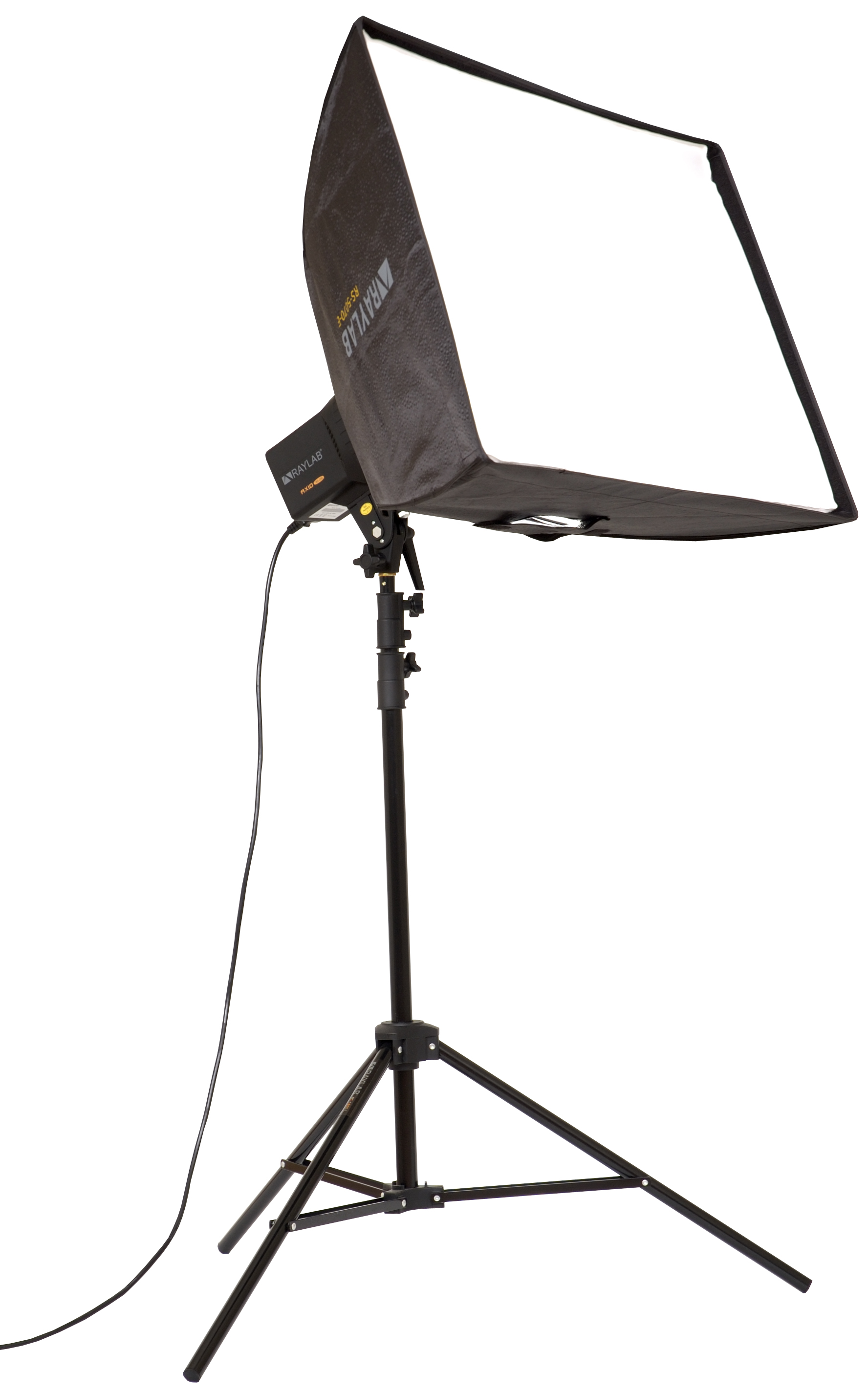 Squarebox - photo studio flash